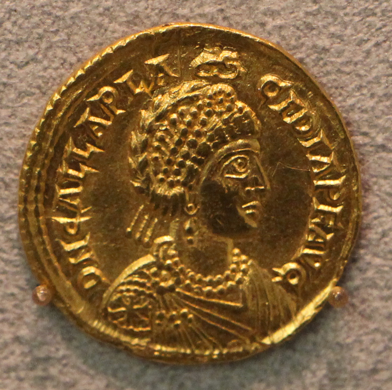 Ancient Roman coins in the Altes Museum Berlin